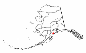 Adapted from Wikipedia's AK borough maps by Seth Ilys.